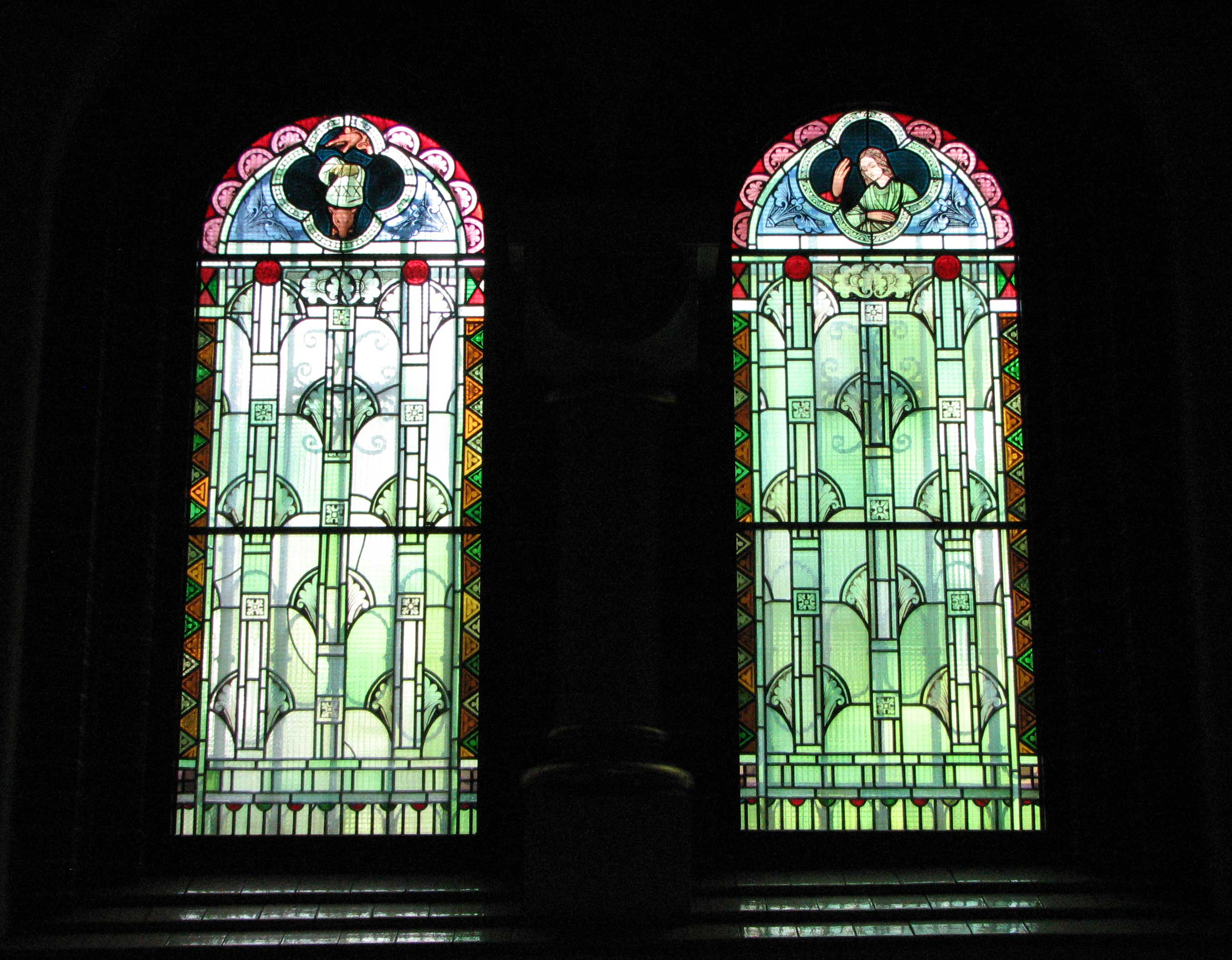 Stained glass windows in the left aisle of the Basilica of St. Louis King in Katowice Poland, XX century